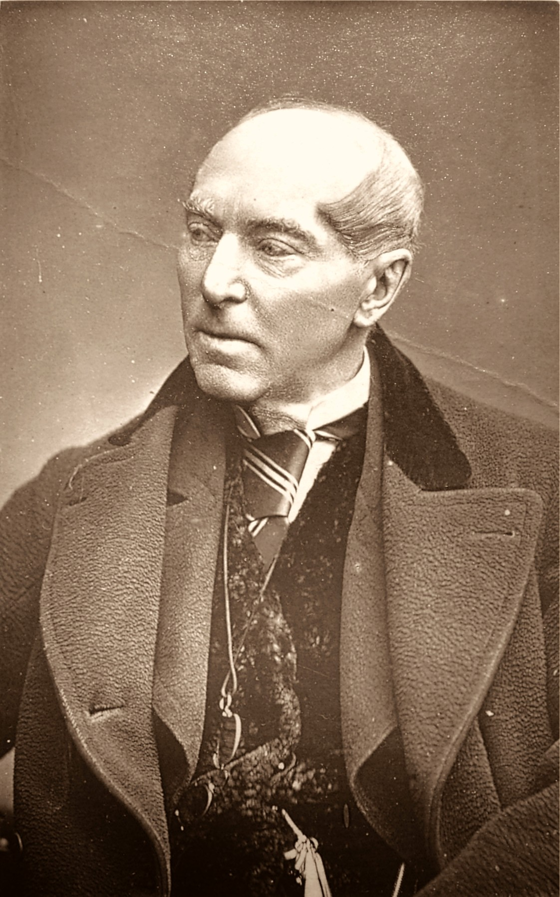 Charles James Mathews 1803-1878, English Actor.